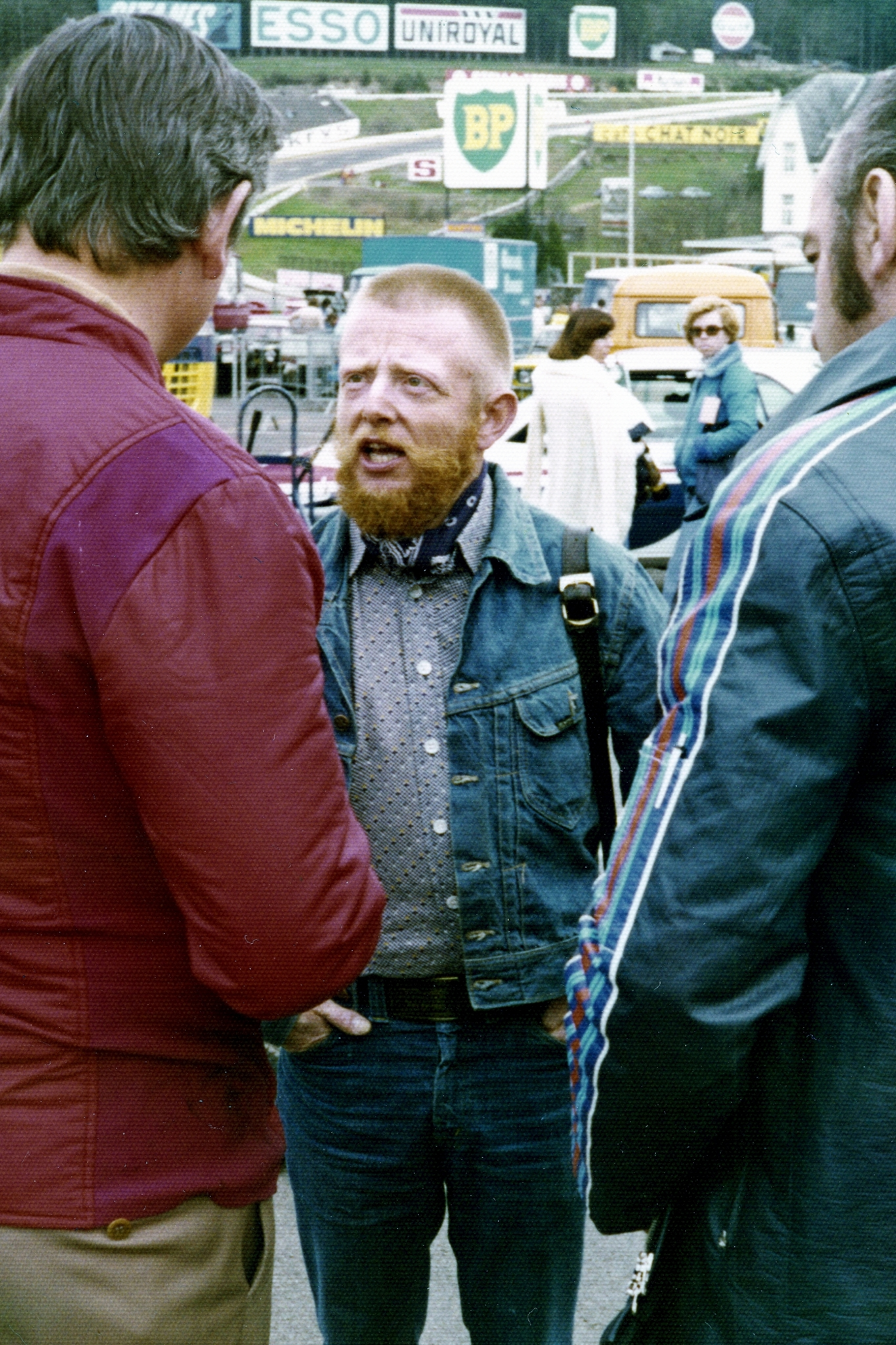 Swiss racing driver Herbert "Stumpen-Herbie" Müller in the mid 1970s pictured at the Circuit de Spa-Francorchamps in Belgium. Scan of a colour print.